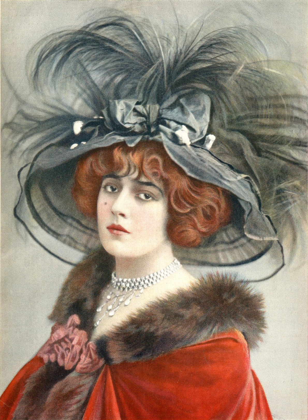 Drawing of Geneviève Lantelme - Scans from “Le Theatre” - 274 (May 1910). “Le Costaud des Epinettes”.